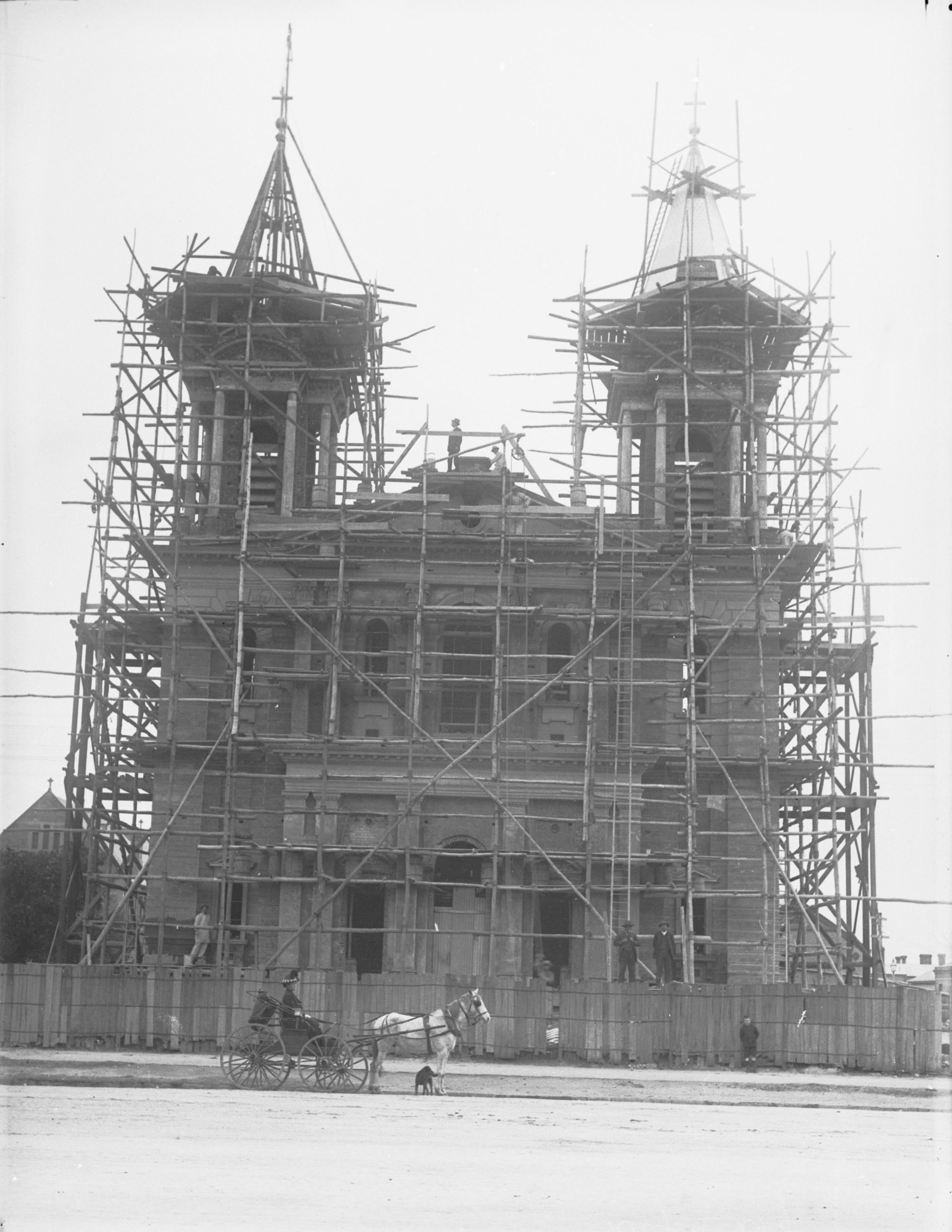 Construction of St Patrick's Church in Grote Street - 1913 - 1914. The foundation stone for the new church was laid on 10 November 1912 by then Archbishop John O'Reily. The church was opened on 15 March 1914 by Archbishop O'Reily and the first mass was celebrated by Fr. Patrick Hurley.